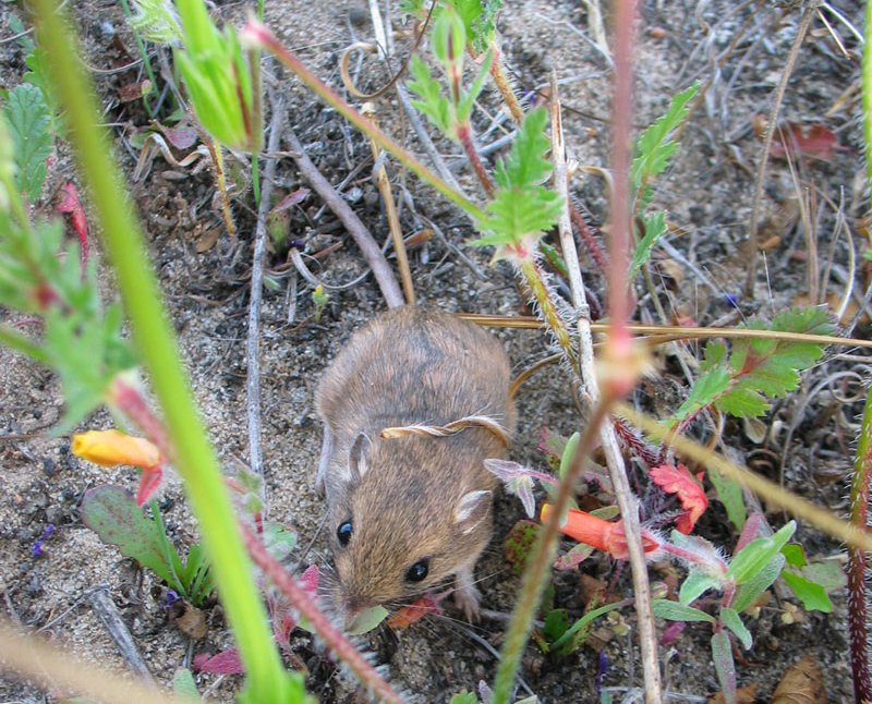 Crop of file in filename